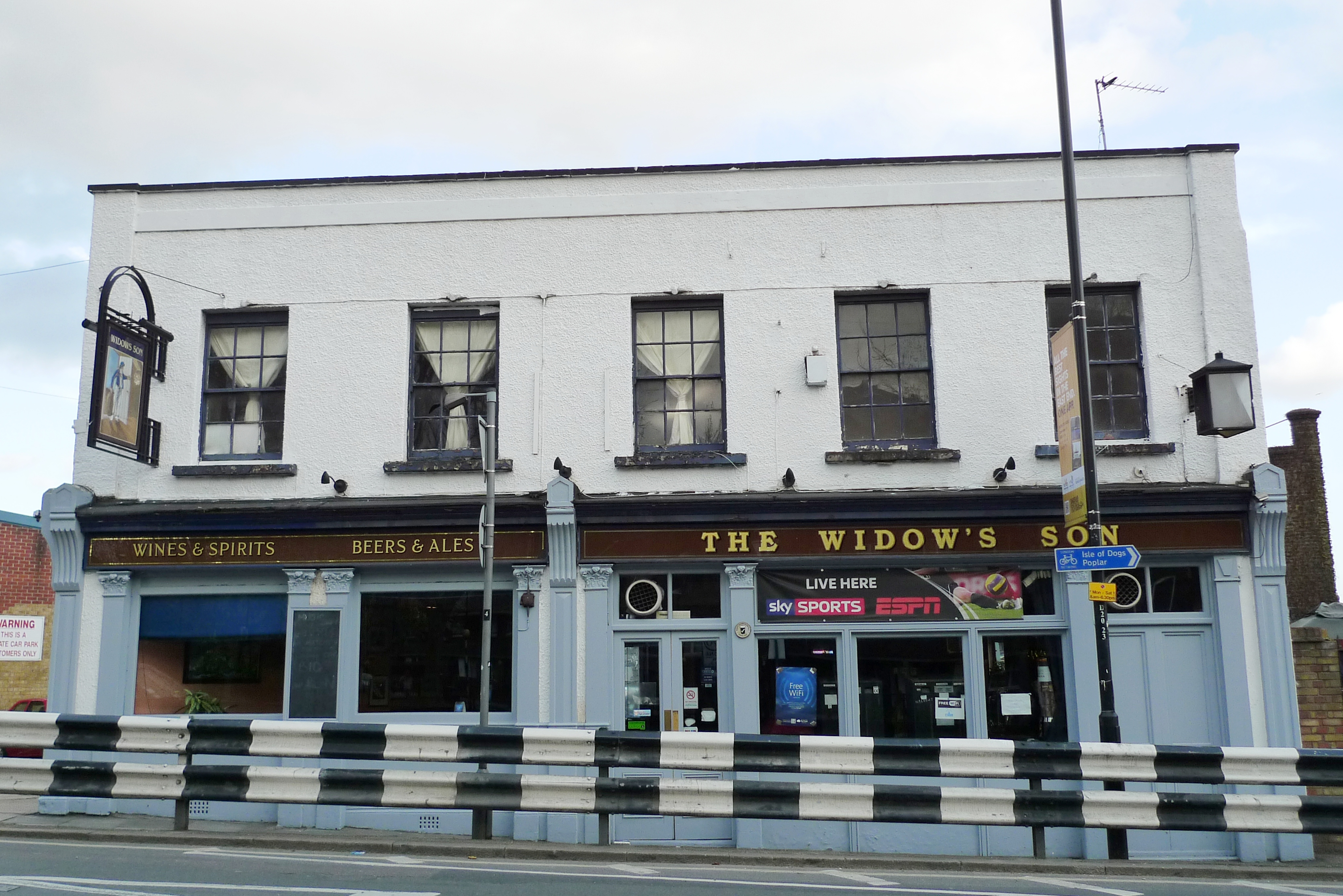 The Widow's Son is a pub near Devons Road DLR station, famous for its Easter bun ceremony (and sometimes called the "Bun House"). Address: 75 Devons Road. Owner: Punch Taverns; Ind Coope [Taylor Walker] (former).